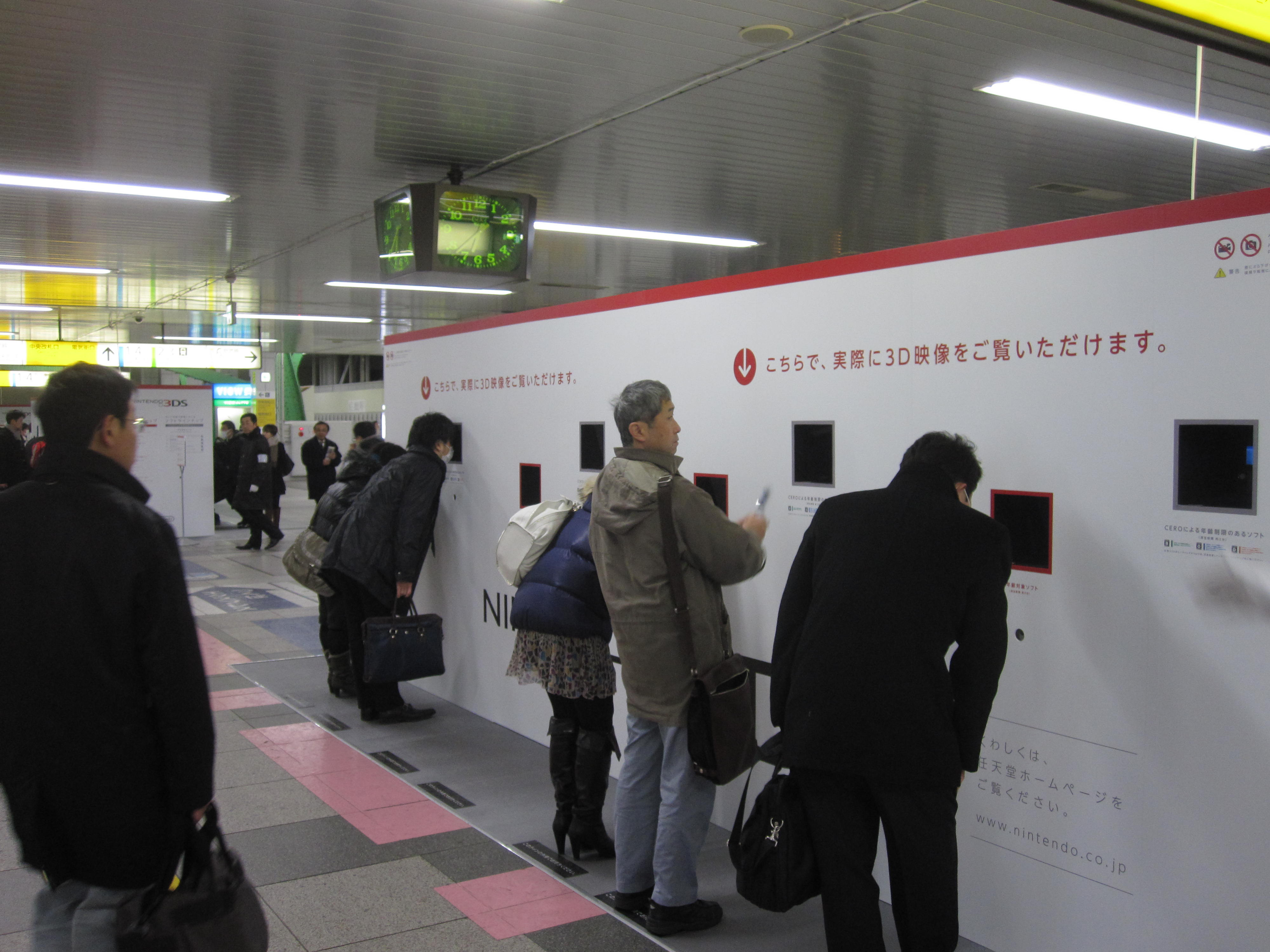 A display of Nintendo 3DS.